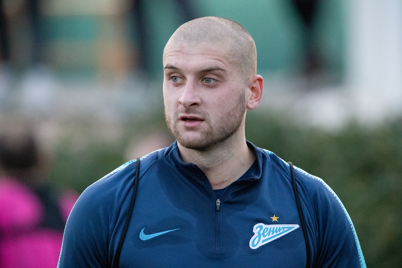 Rakitskiyy in Gazprom Training Camp in Spain, February 2019.